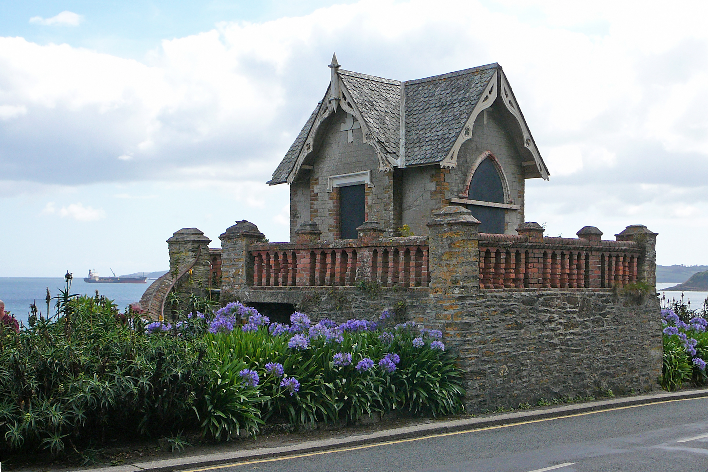 Summer house in former private garden of Gyllyngdune estate, possibly used as a chapel but never consecrated. c1840s for the Revd William Coope, rector of Falmouth 1838-1870. Rubble with red brick dressings; fish-scale scantle slate gabled roof with exposed purlins, shaped and pierced quatrefoil and dagger barge boards with turned finials and pendants. Small cruciform, near rectangular plan with balustraded walk around it and serving as a bridge over a waterfront walk (in the style of a rustic cave) and linked to steps and walls giving access to Steps (qv) and tunnel to beach. Gothic Revival style. Central pointed-arched doorway with hood-mould, pair of planked doors and iron gate with scrolled crest to landward end. Flat-headed window to each side gable and to seaward end, all with hood-moulds and boarded up at time of survey; crosses above side windows. INTERIOR: well-detailed waggon roof with cross vault and moulded under-purlins and lower arched bracing. SUBSIDIARY FEATURES: red brick balustrades between piers with stepped pyramidal caps around the building, winder steps down to path and wall with similar piers and balustrades continuing along the seaward side towards, and recessed parallel to the Steps (qv), giving access to the beach, and slightly beyond. HISTORY: the Revd William Coope was the "unchallenged pioneer" of Tractarianism within the Anglican Church in Cornwall. Prominent position on sea front.